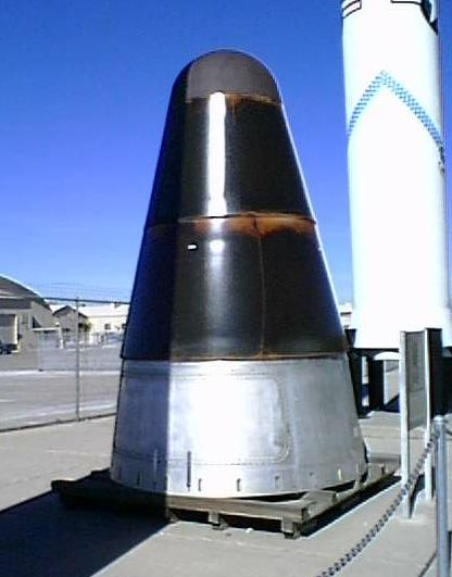 Mk-6 reentry vehicle from Titan-2 ICBM exhibited at the National Atomic Museum Albuquerque, NM. Photo was taken on 21 February 1999 by Stephen Sutton.